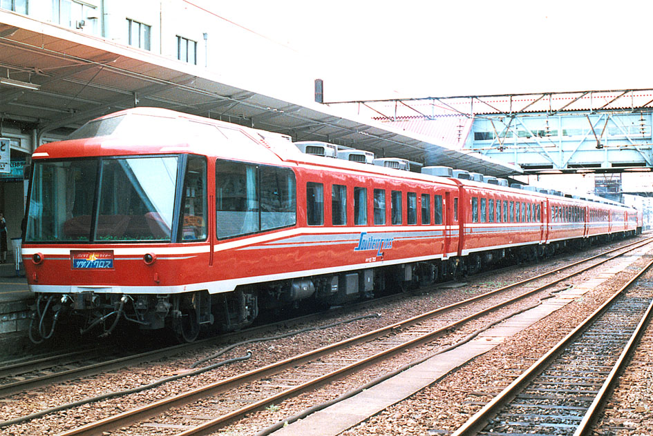 Southern Cross train of JR Kyushu